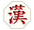 One of the janggi pieces.